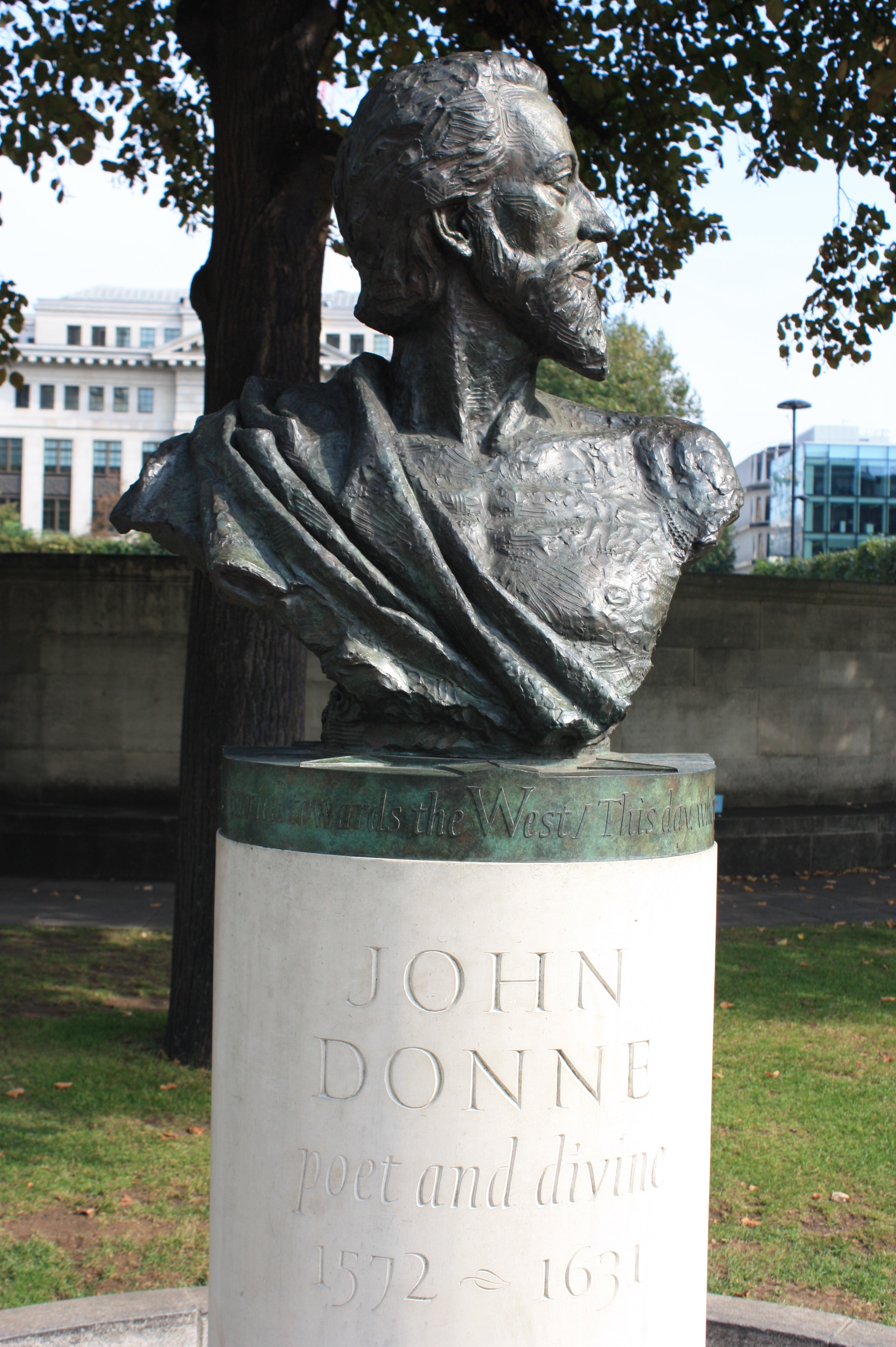 John Donne by Nigel Boonham, 2012, St Paul's Cathedral Garden